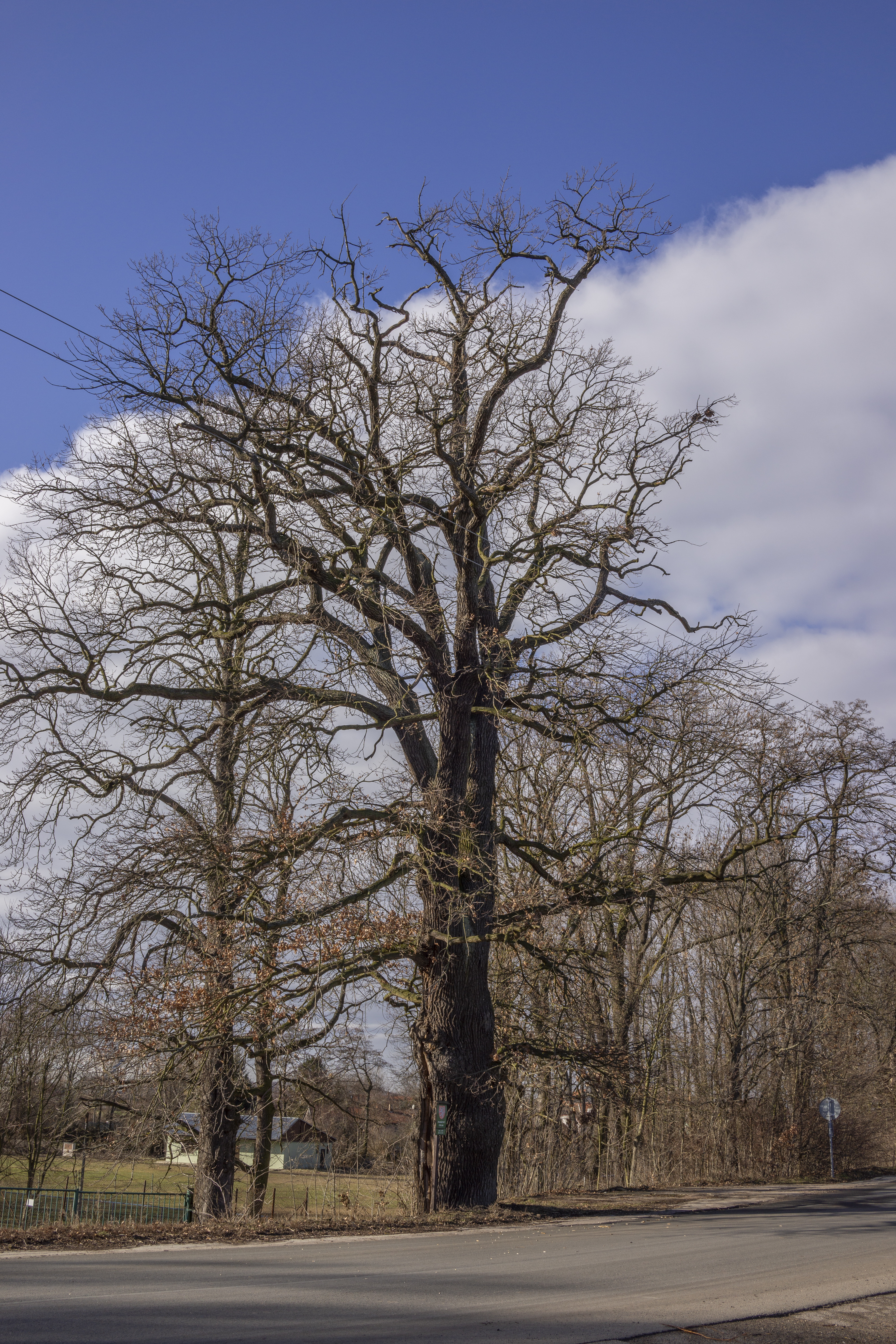 Memorable oak tree in Zehun, Czech Republic